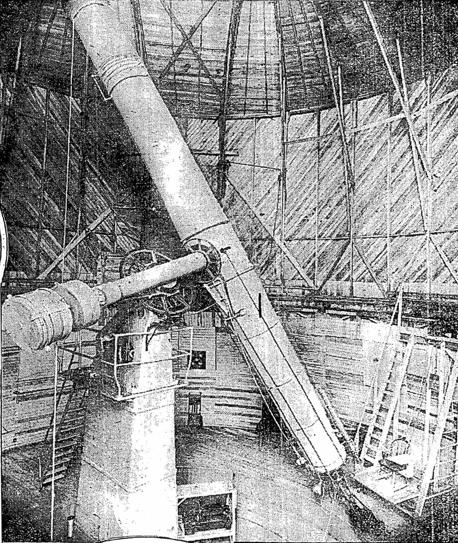 Black and white photo of the great telescope at Lowell Observatory